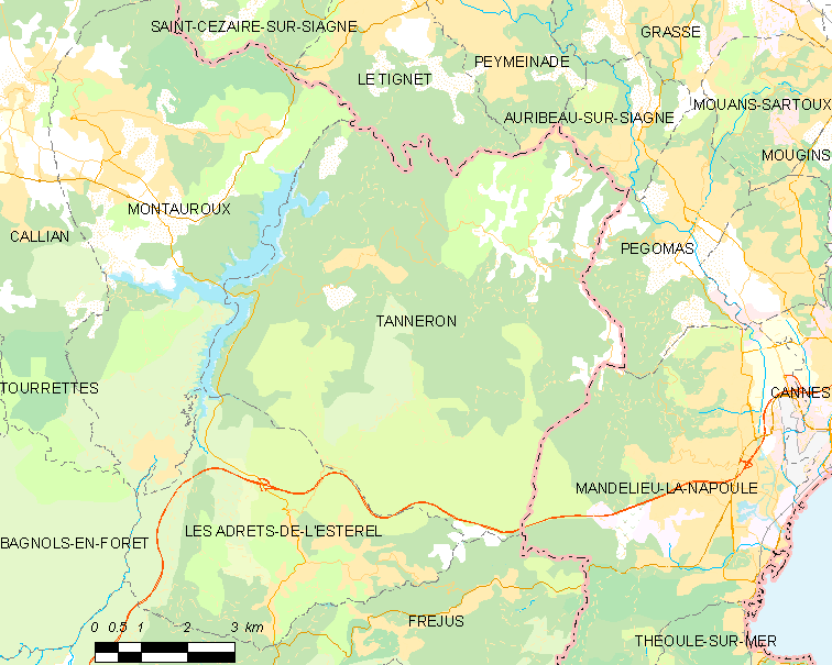 Map of French municipality Tanneron